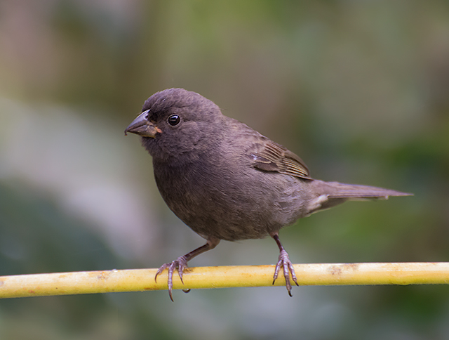 Sooty grassquit (Tiaris fuliginosus)